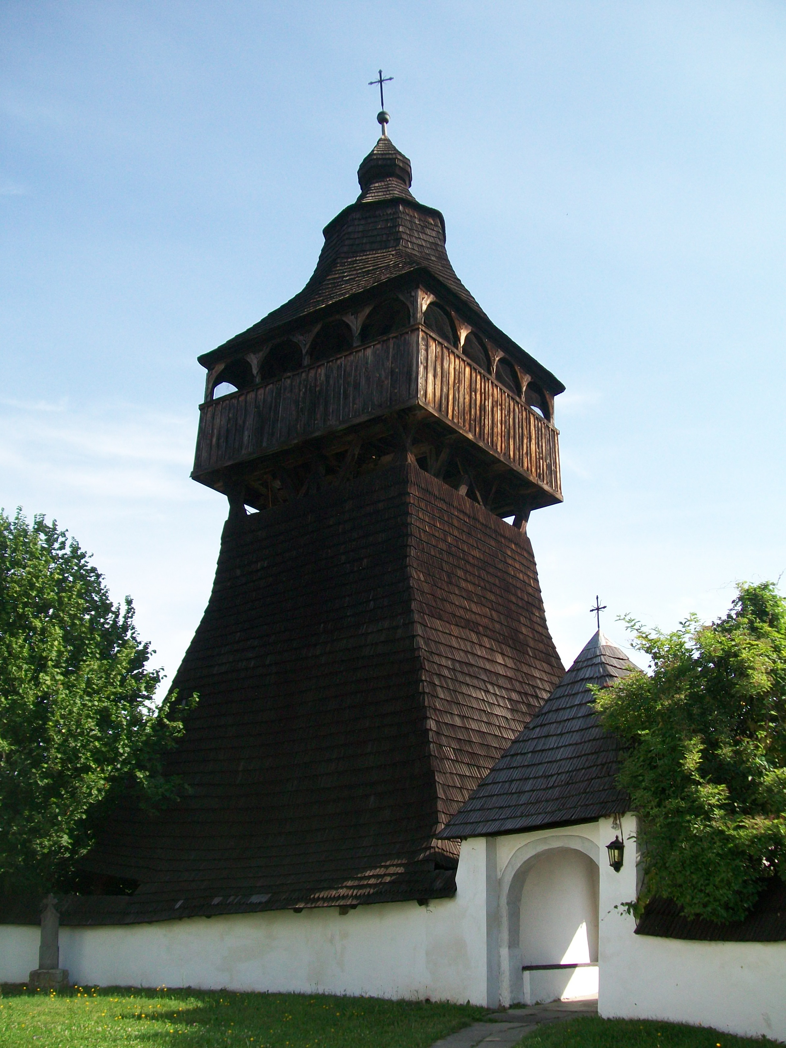 Renaissance wooden belfry from 1672; bell of about 15 century, in Stará Halič (cultural Heritage)